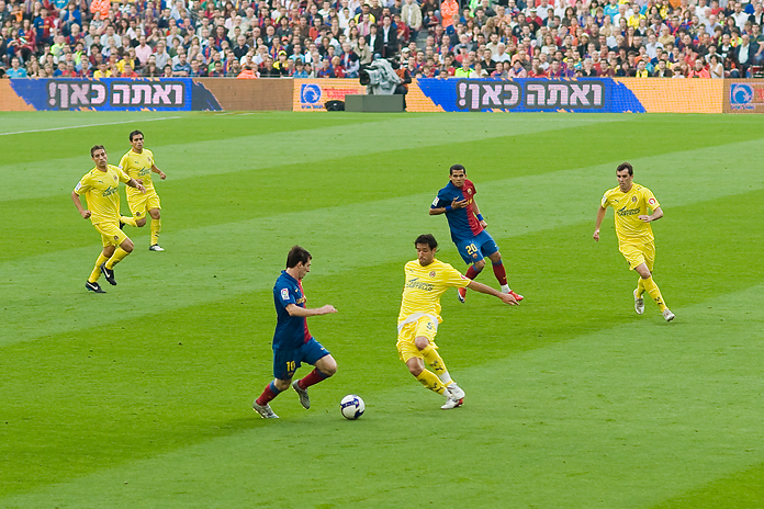 Lionel Messi of FC Barcelona against Villarreal. Daniel Alves in the background.